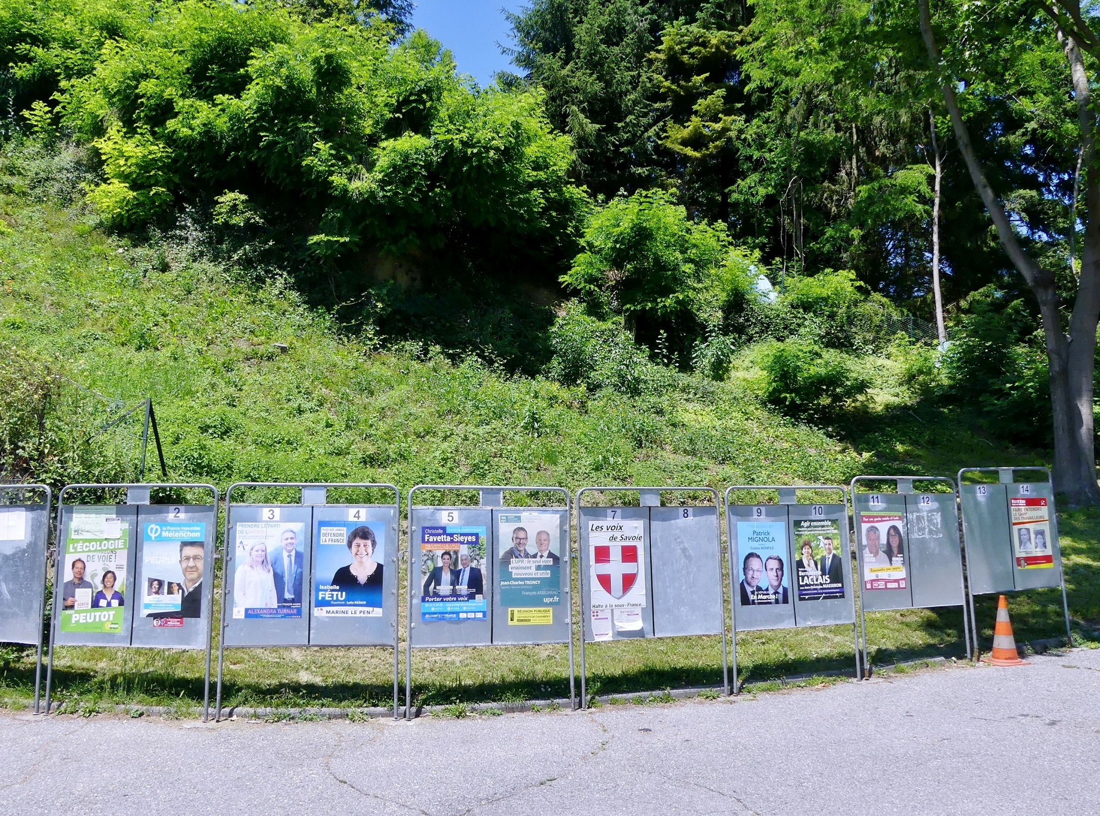 Sight of the election posters in the 4th constituency of Savoie, the day before the first round of the French legislative election in 2017. This picture is taken in Chambéry.